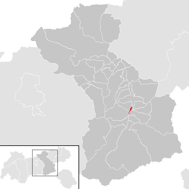 District Schwaz